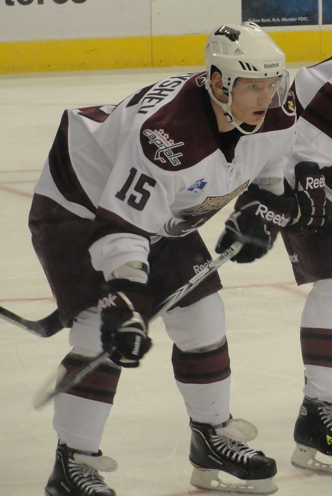 Photo of Dmitri Kugryshev at Giant Center on November 12 2010